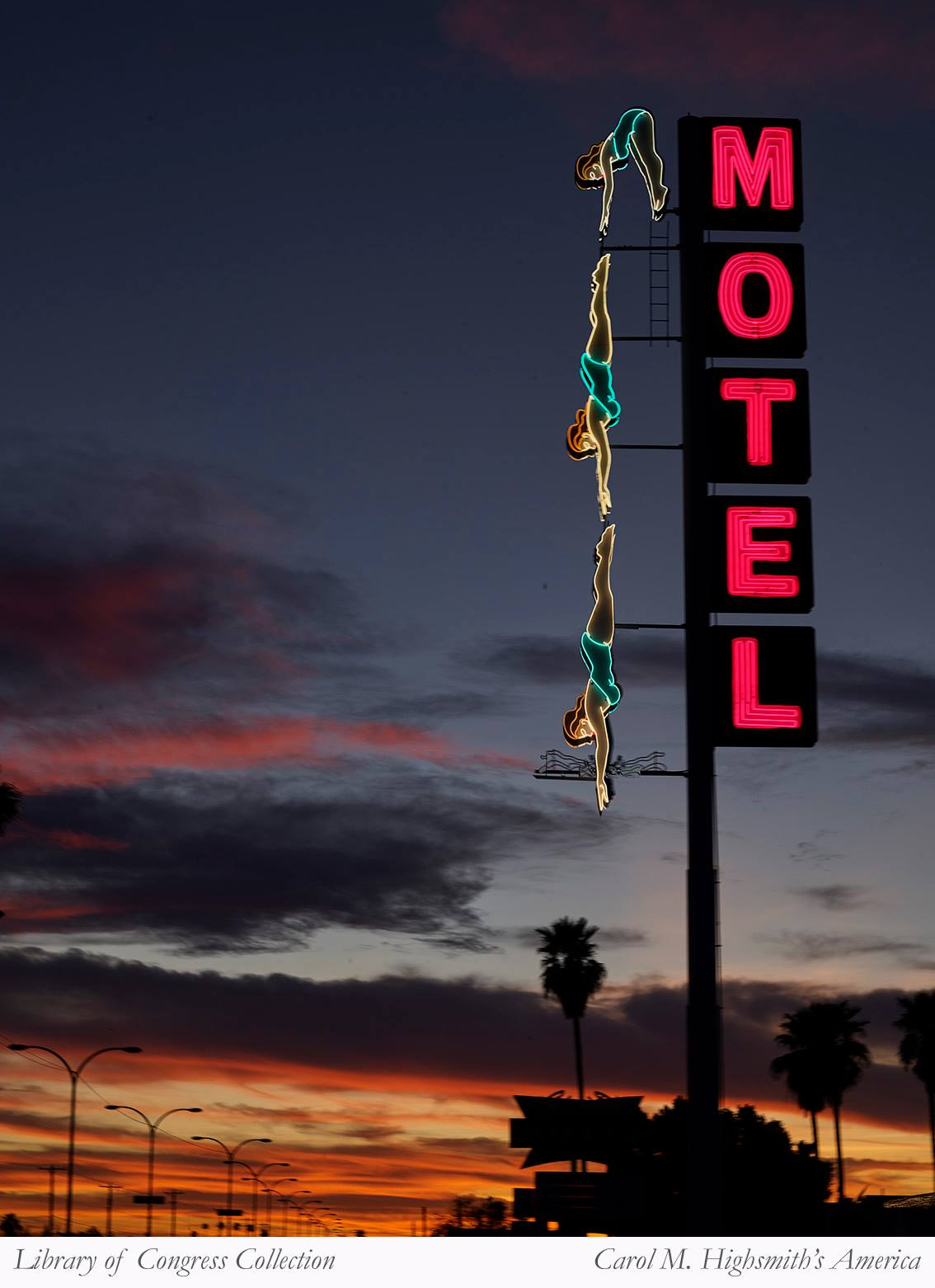 Motel neon in Arizona